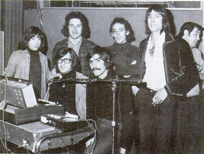 Photo of Triana on studio.